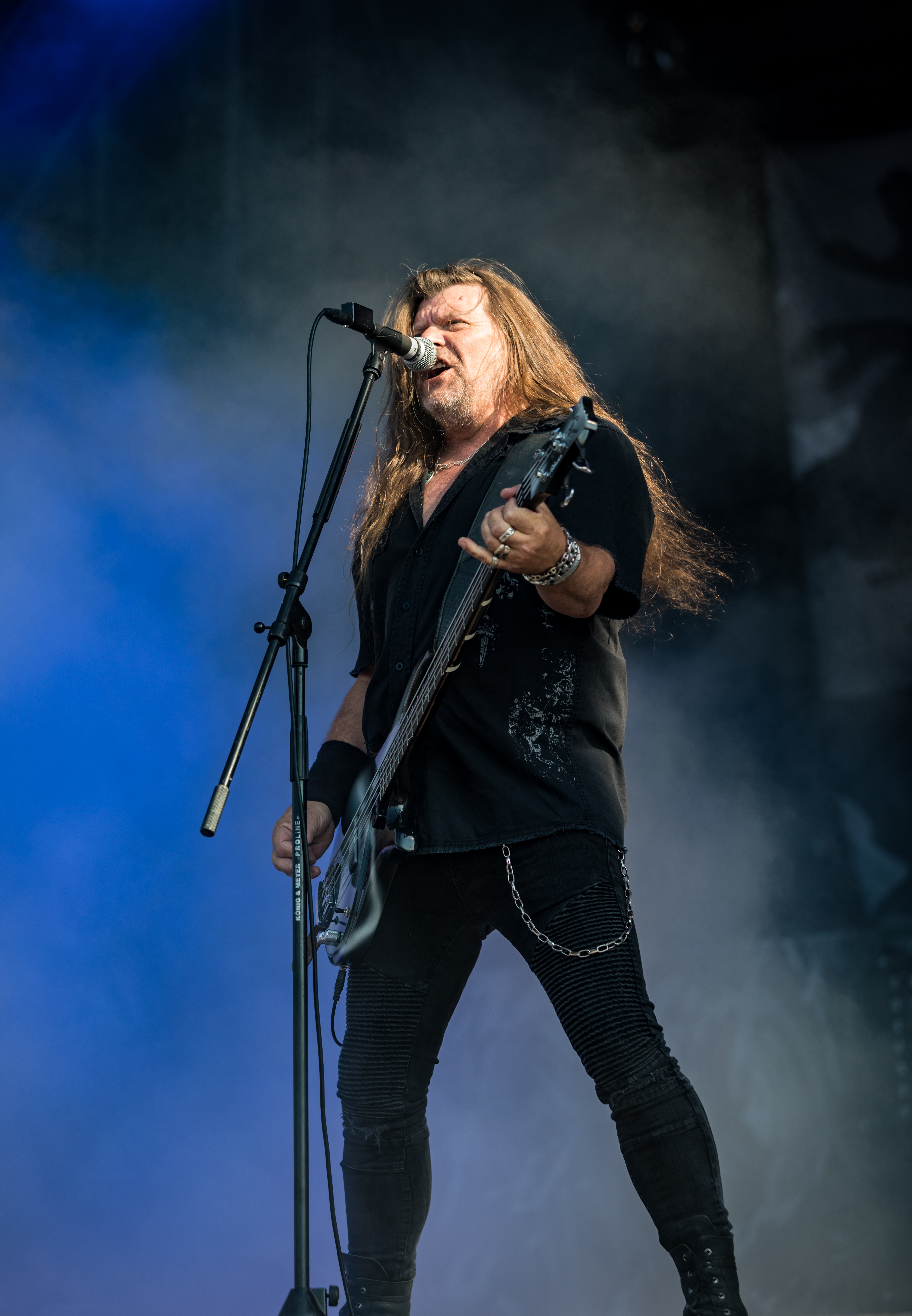 Dirkschneider - Wacken Open Air 2018